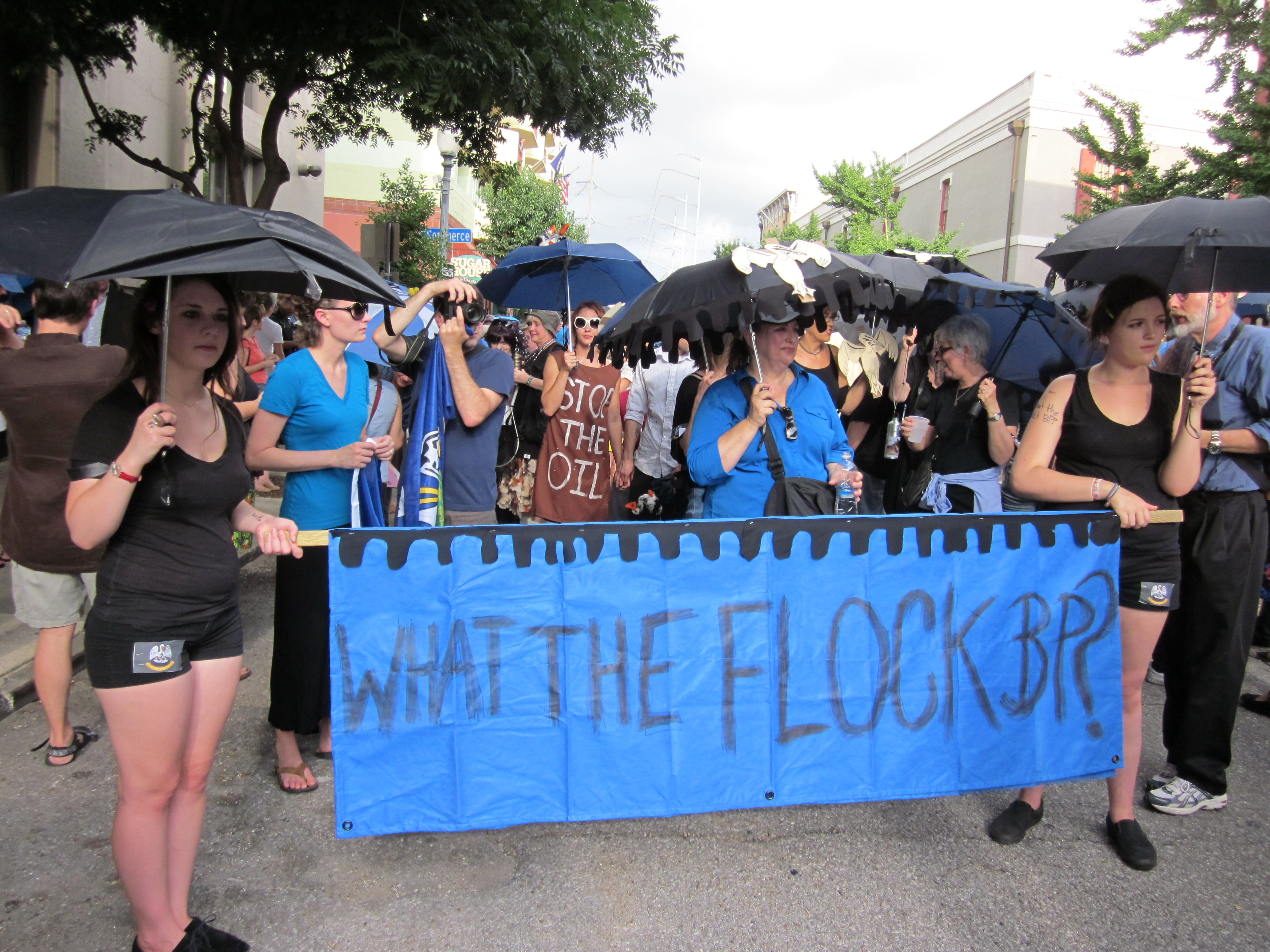 New Orleans: "1st Procession of the Krewe of Dead Pelicans". Satirical second line parade in response to the BP Deepwater Horizon oil spill disaster.